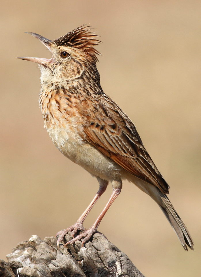 Rufous-naped Lark